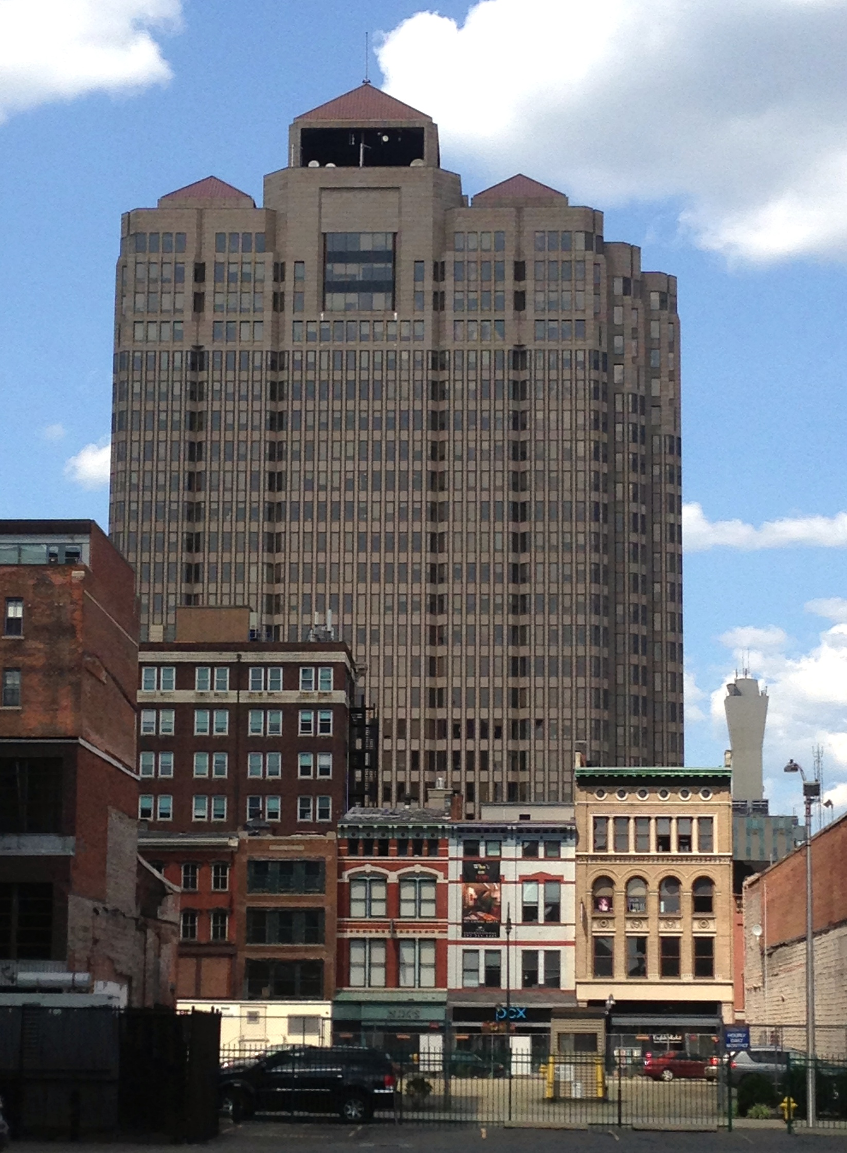 View of the Connecticut Financial Center, New Haven's tallest building as of 2014